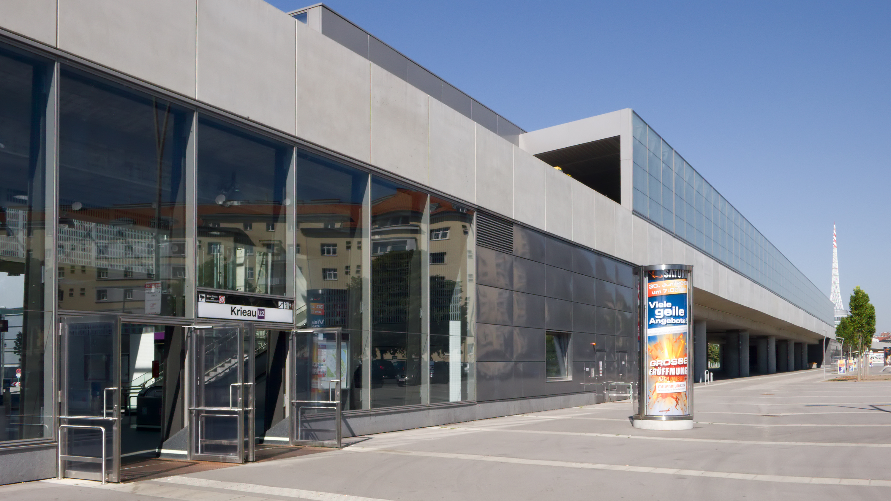 Underground station Krieau (U-Bahn-Station) in Vienna Leopoldstadt